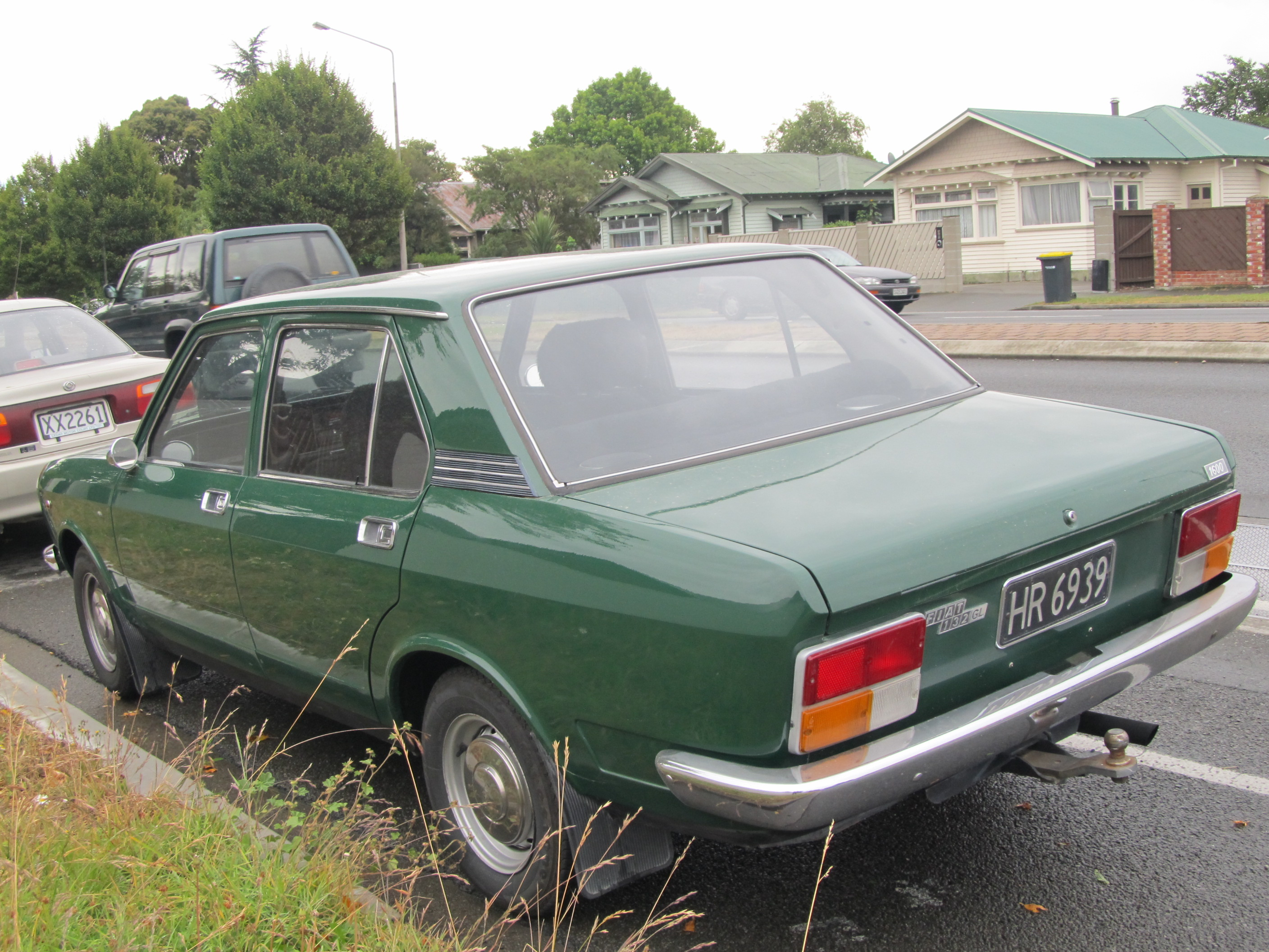 HR6939 Well, I had to take two photos, didn't I? This was as clean as it could get, and it's only a GL model as well. I adore 1970s Fiats, but most have turned into piles of oxide by 2012, which is sad but testament to the dodgy Soviet steel Fiat used at the time. I actually saw a later gold Argenta being towed on a trailer last week, but I wasn't quick another with the camera - dammit! At first glance I thought it was a MkI Mazda 626...